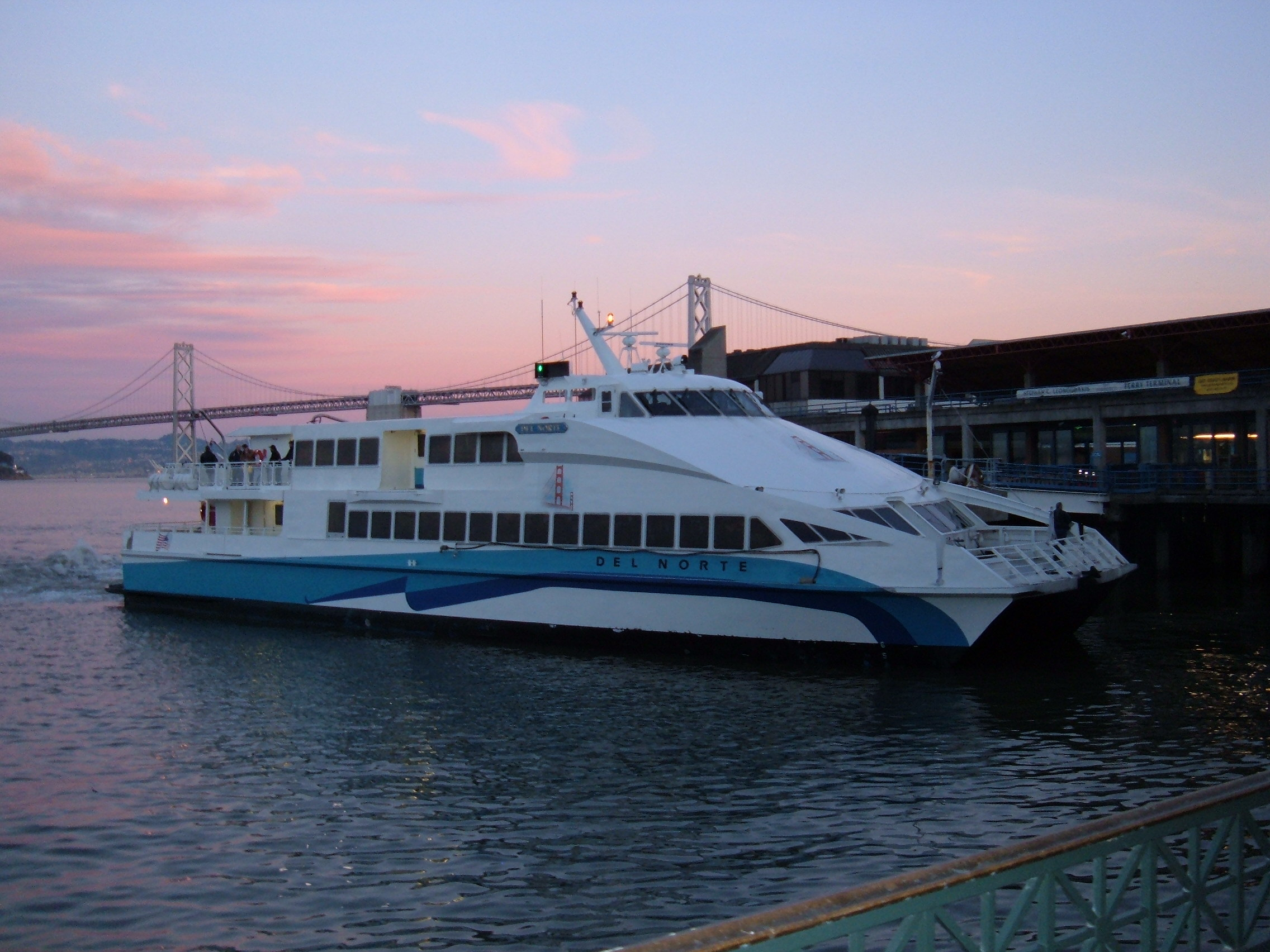 Golden Gate Ferry Del Norte leaving the Ferry Building terminal.